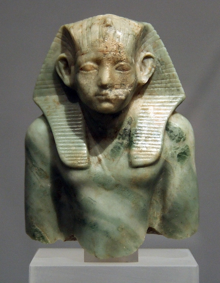 King Amenemhat III, Middle Kingdom of Ancient Egypt, 12th Dynasty, ca. 1800 BC, Verd antique (Staatliche Sammlung für Ägyptische Kunst in Munich).